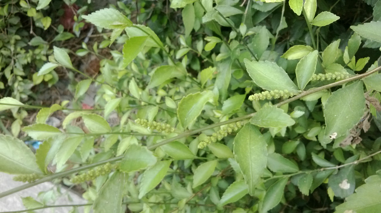 Acalypha siamensis in Vietnam